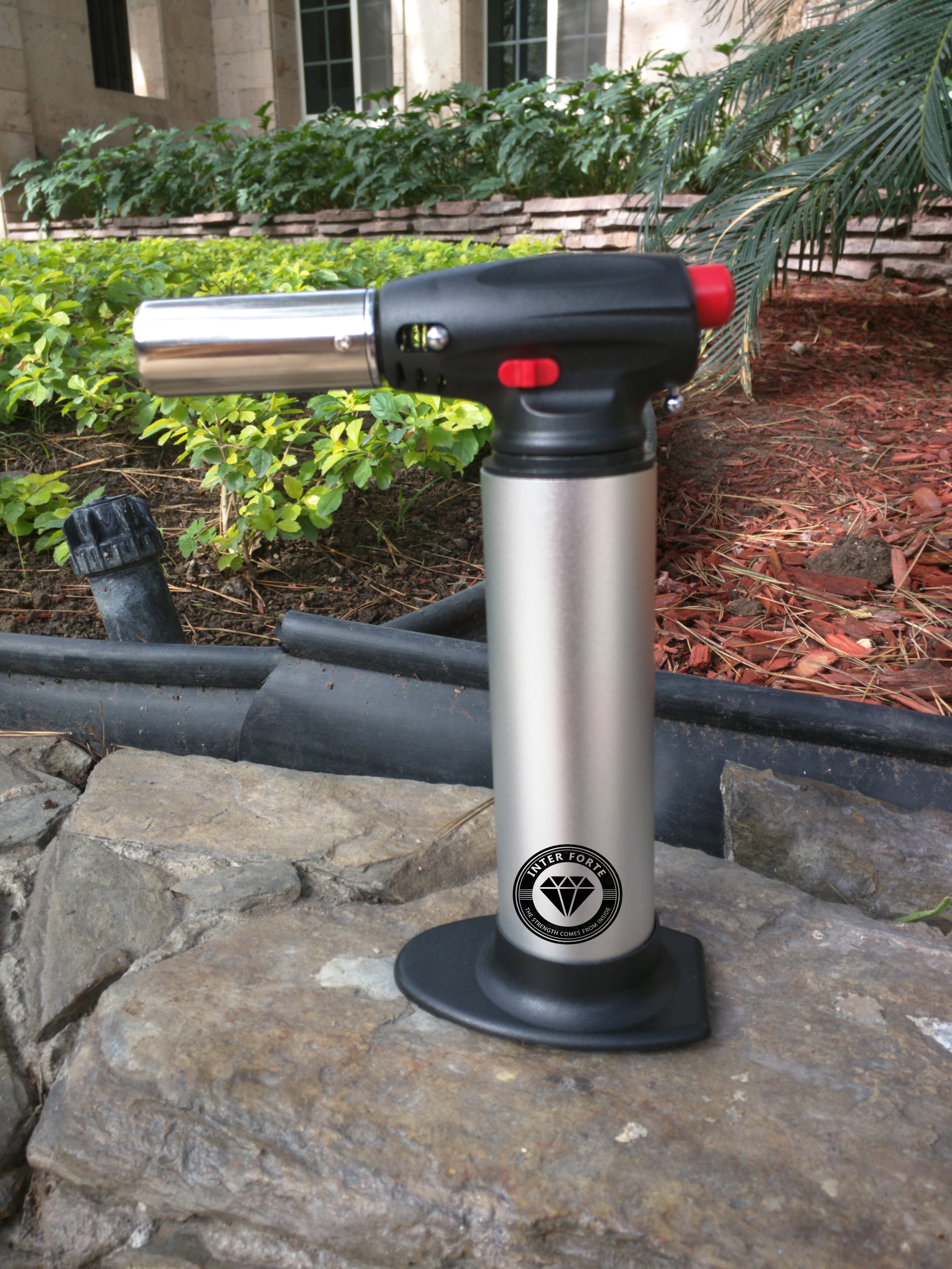 Heavy duty micro blow torch flame forte Torch for Soldering, Plumbing, Jewelry and Brazing.